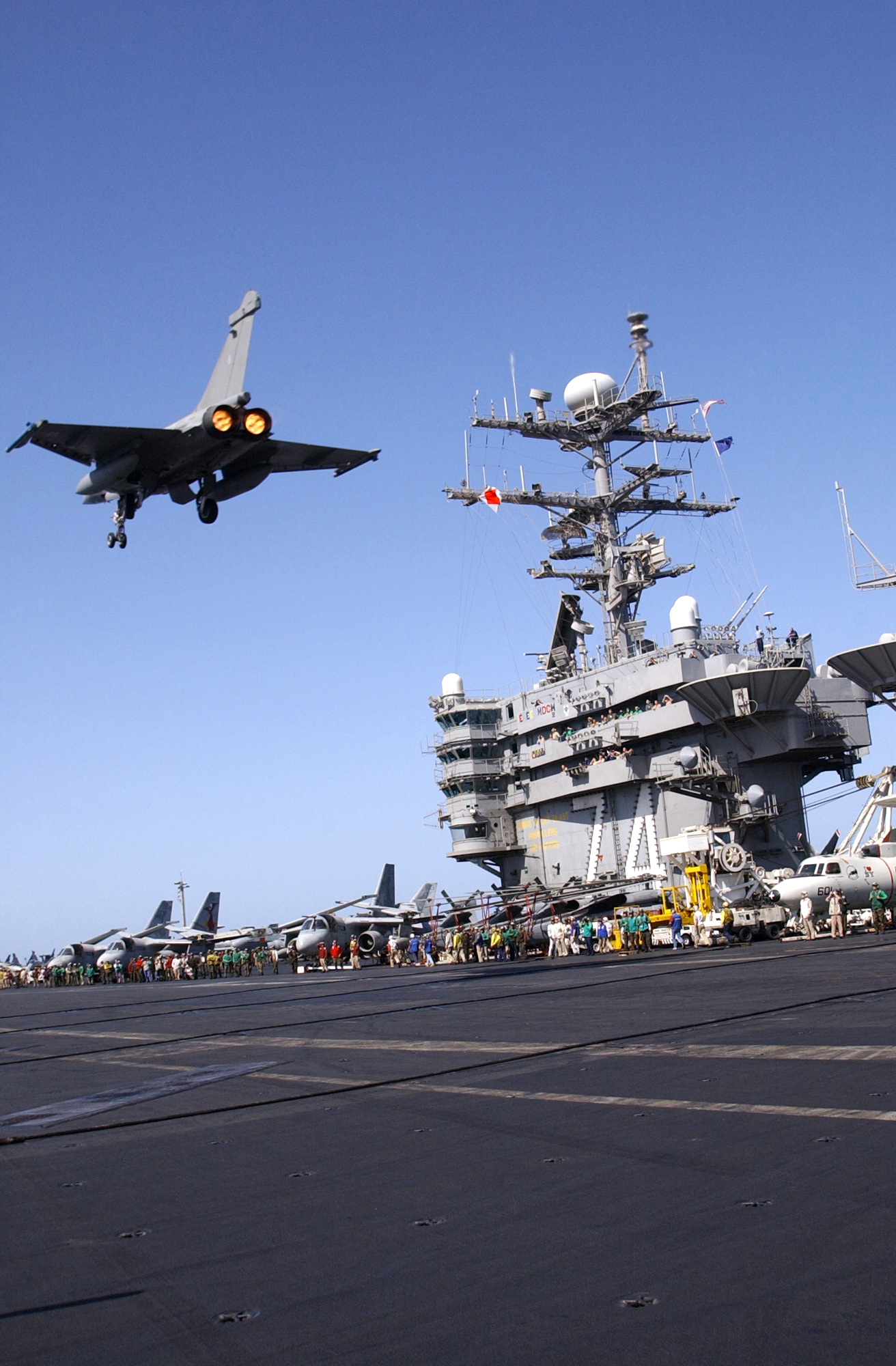 Source: [1] 020314-N-9769P-084 At sea aboard USS John C. Stennis (CVN 74) Mar. 14, 2002 -- A French “Rafale” MO2 ignites its afterburner as the fighter aircraft performs a fly-by pass over the flight deck. John C. Stennis and coalition forces are conducting combat missions in support of Operation Enduring Freedom. U.S. Navy photo by Photographer's Mate 3rd Class Jayme Pastoric.